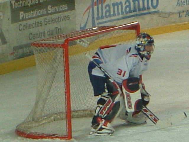 Patrick Rolland, french ice hockey player. Euro Ice Hockey Challenge, 2003, Briançon, France.